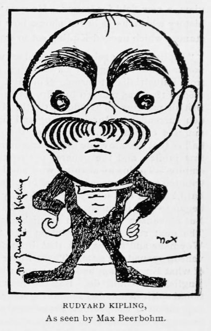 Rudyard Kipling cartoon